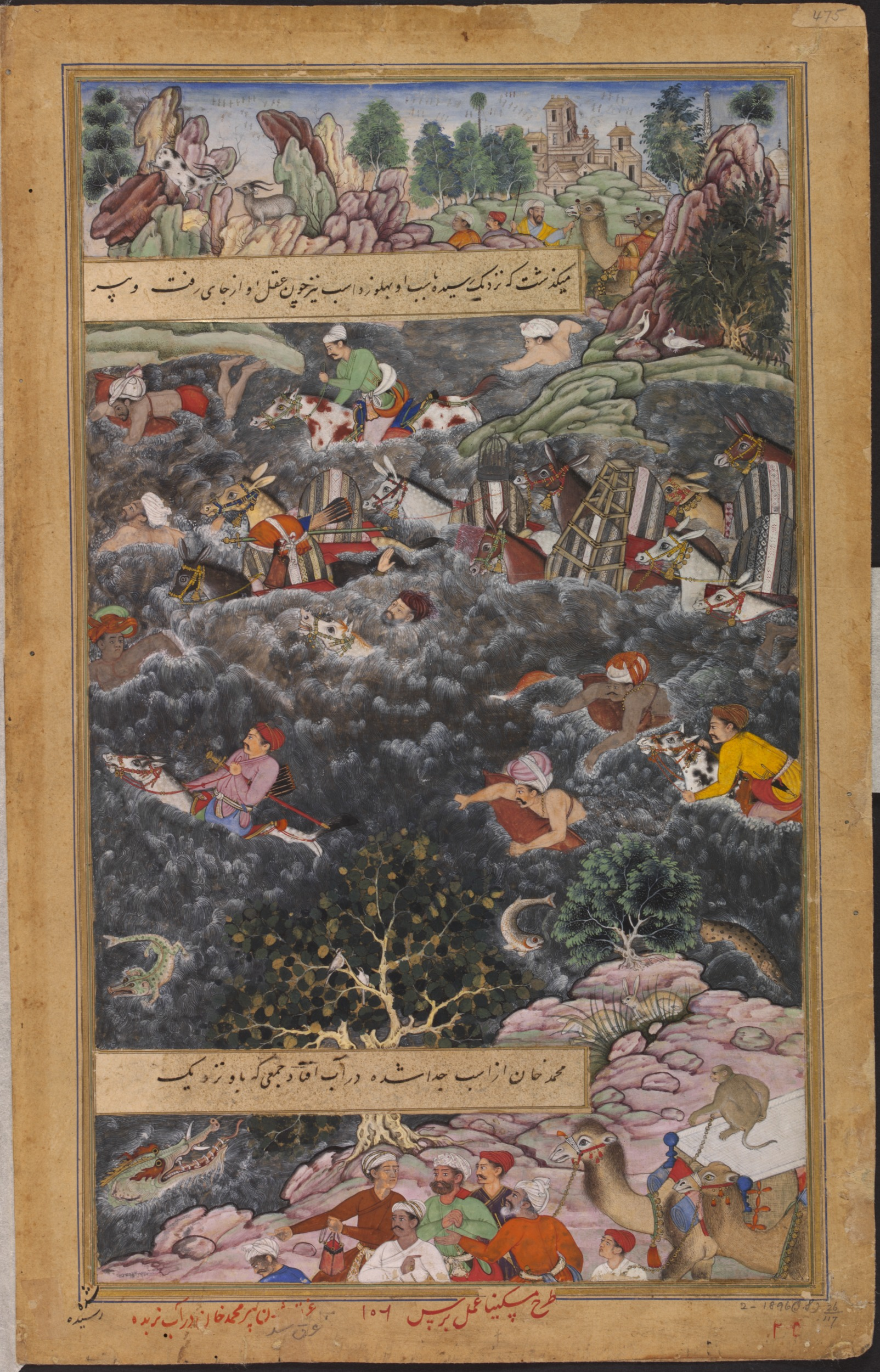 It depicts the drowning of Pir Muhammad Khan, one of the generals of the Mughal emperor Akbar (r.1556–1605), in the Narbada River in central India in 1562. In the centre of the picture the imperial army can be seen fording the river either on horseback or on inflated skins. Composed by the Mughal court artist Miskina with details painted by Paras. The variety of animals (horses, camels, goats, crocodiles, birds, fish and a monkey) demonstrates Miskina’s preoccupation with the animal kingdom.